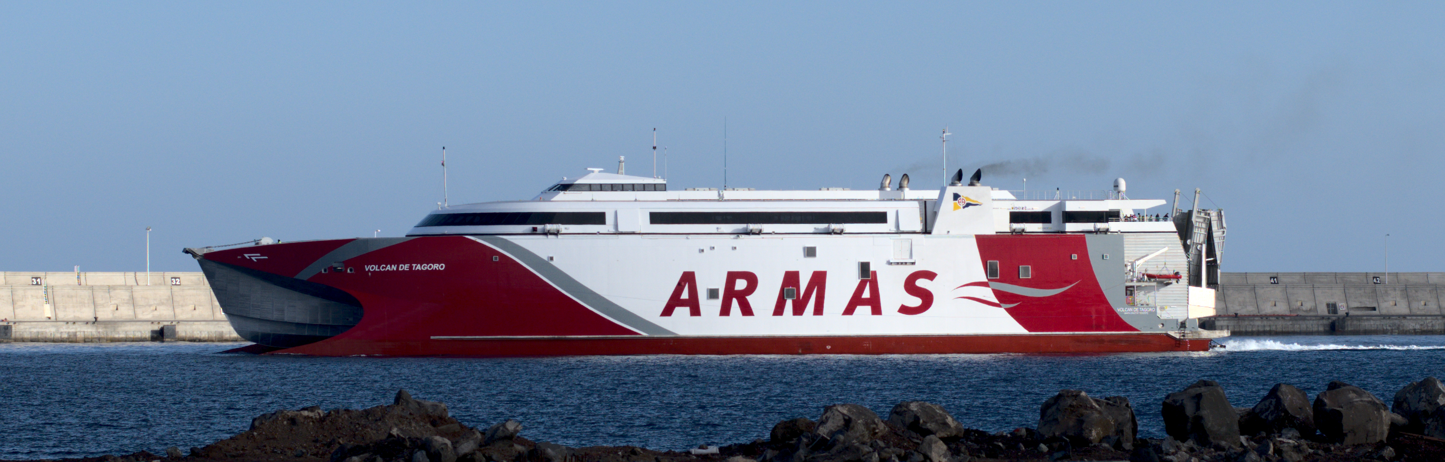 (null)